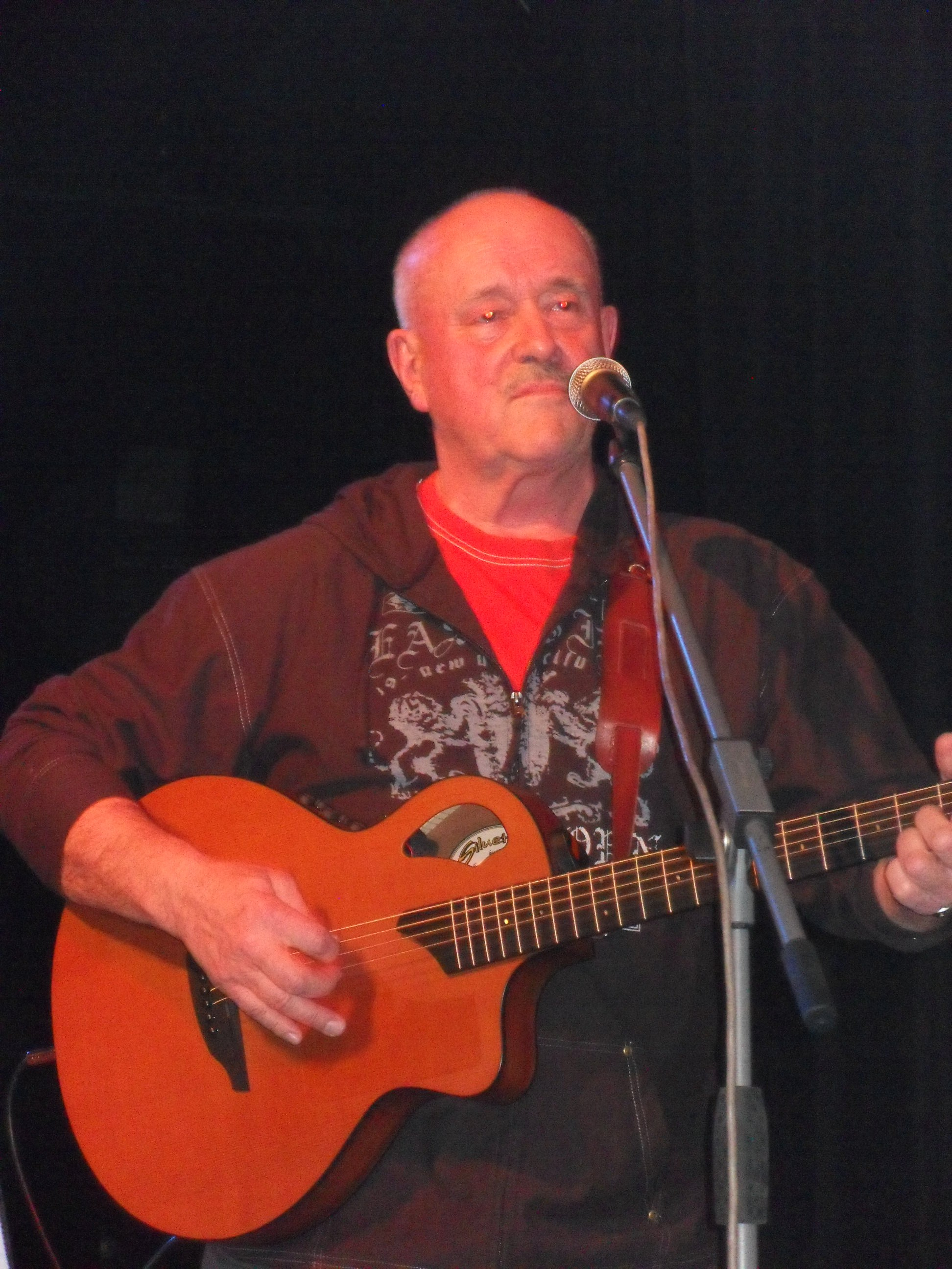 Vocalist Petr Ulrych of Czech band Javory, Brno, Czech Republic